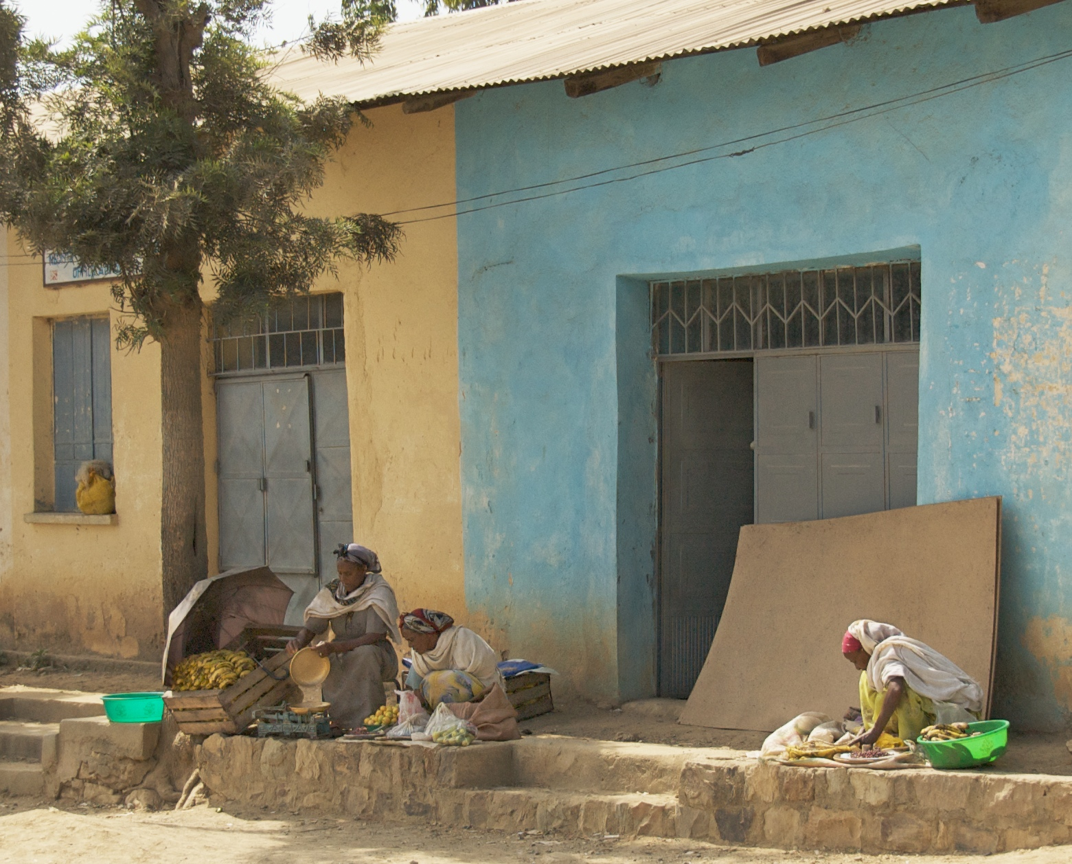 Fruit vendors setting up shop for the day in Adwa, Tigray Region, northern Ethiopia.